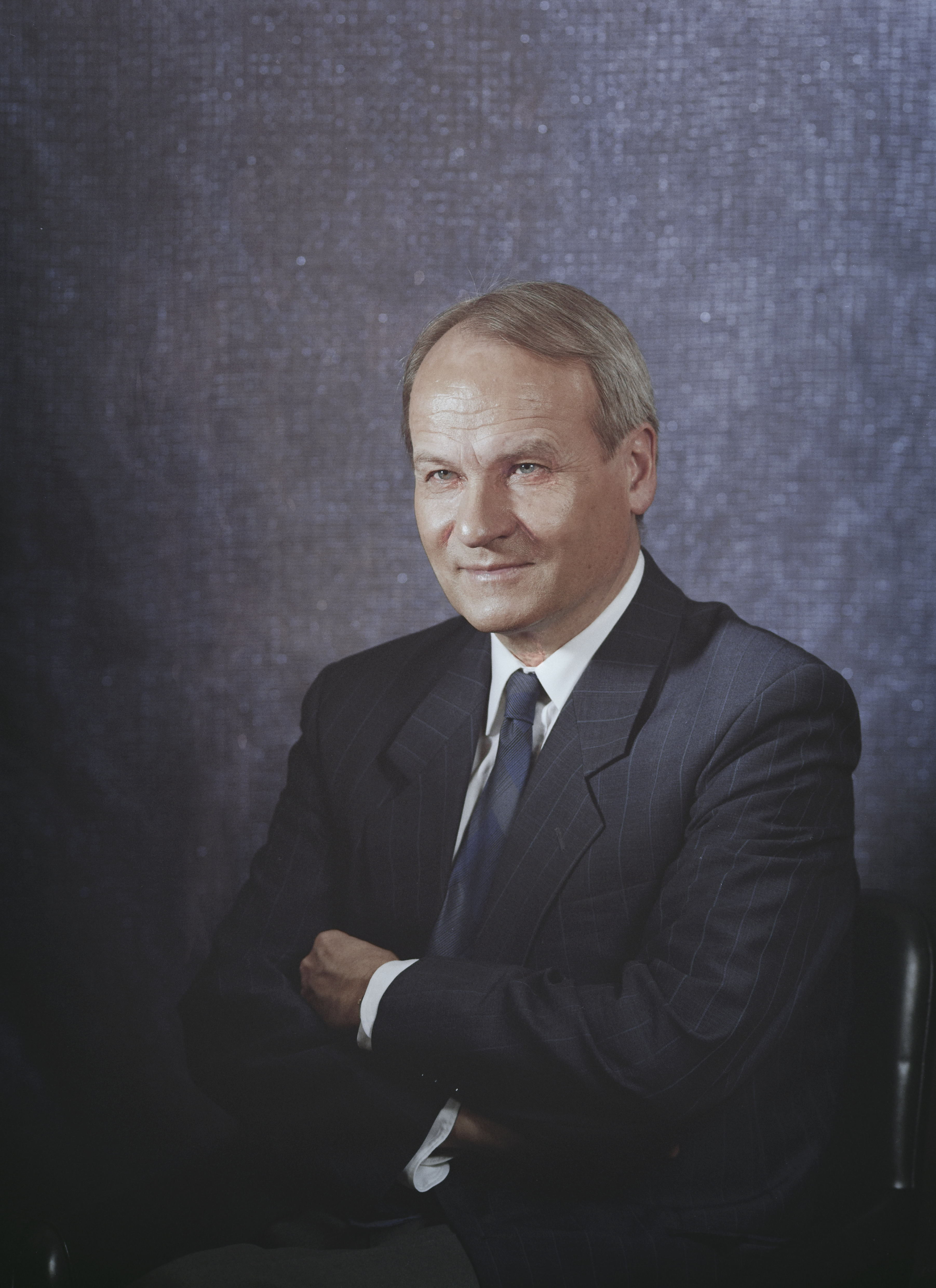 Photograph of the Finnish philosopher and professor Reijo Wilenius (1930–).